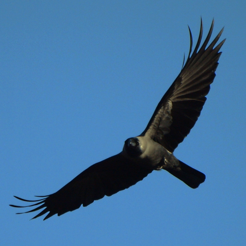 House Crow (Corvus splendens) in flight over Dhrangadrha